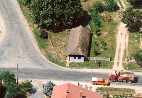 Csesztreg, Hungary, aerial photography